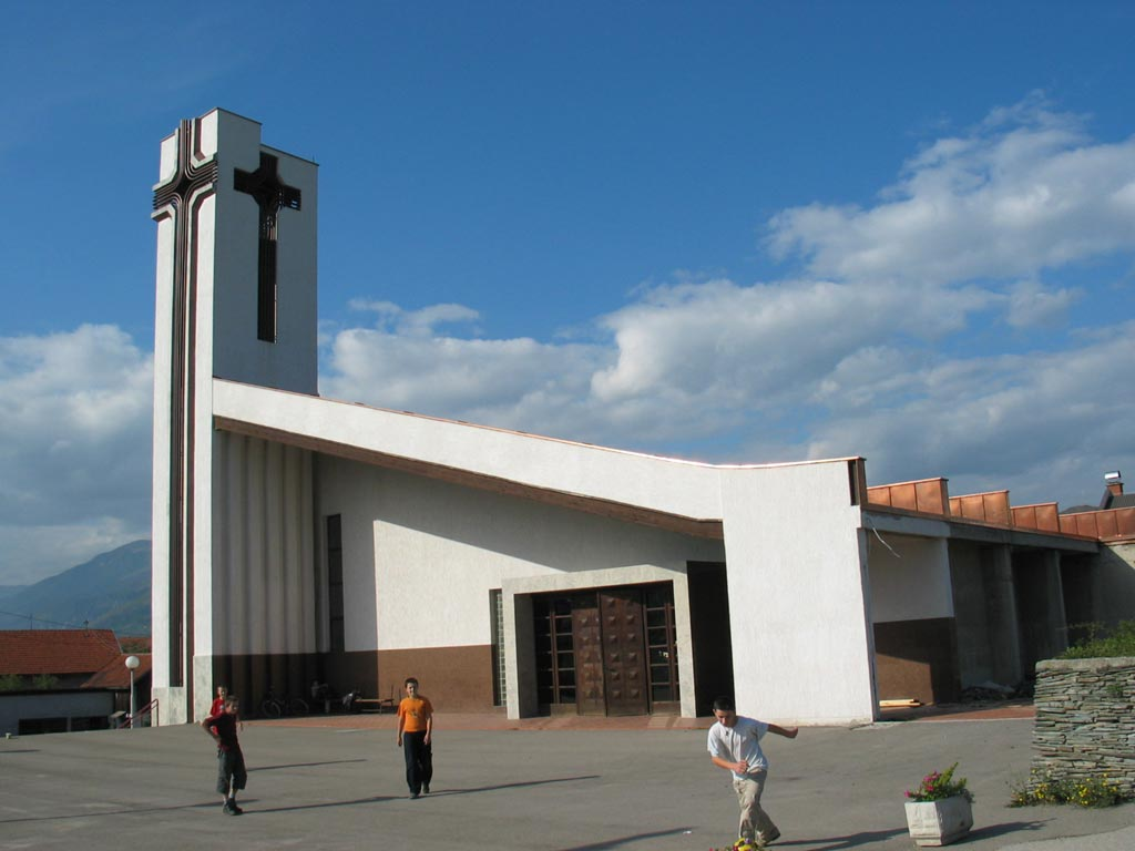 Saint Spirit Church in Nova Bila